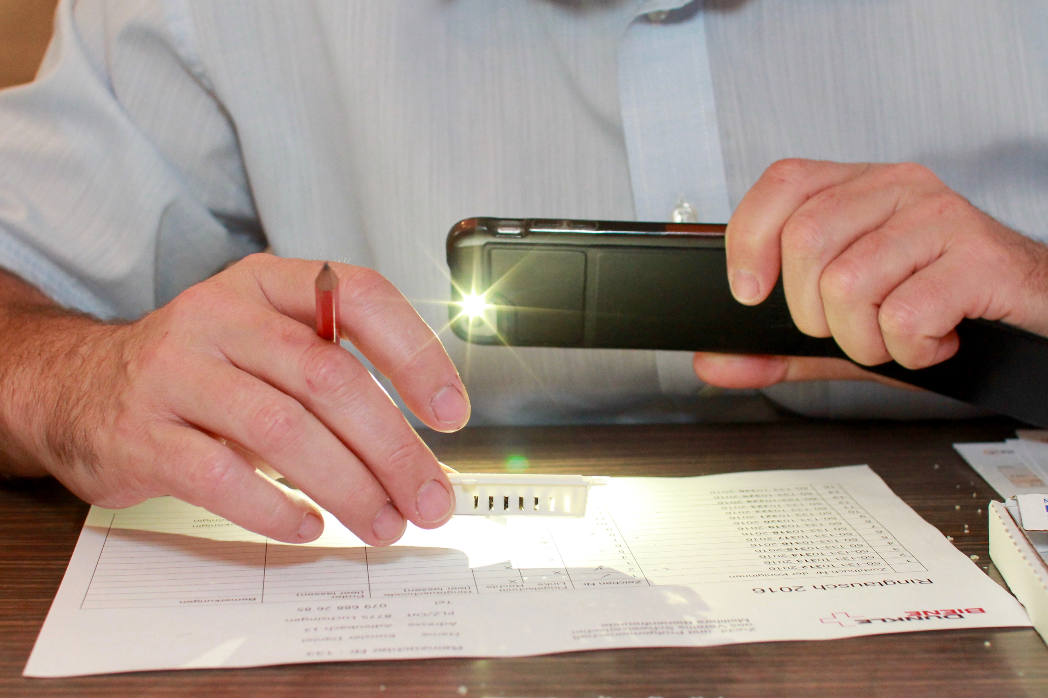 Accurate control of breeding queen bees before Ringtausch.